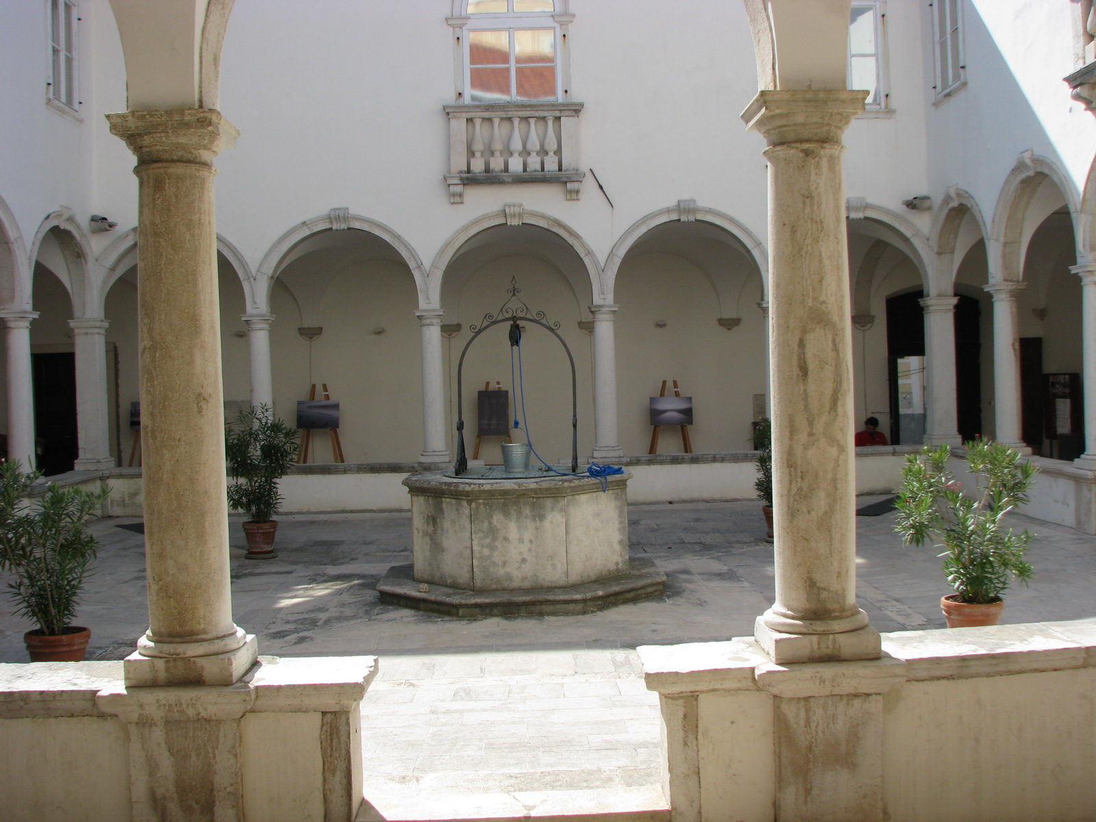 Atrium of Franciscan monastery, Piran